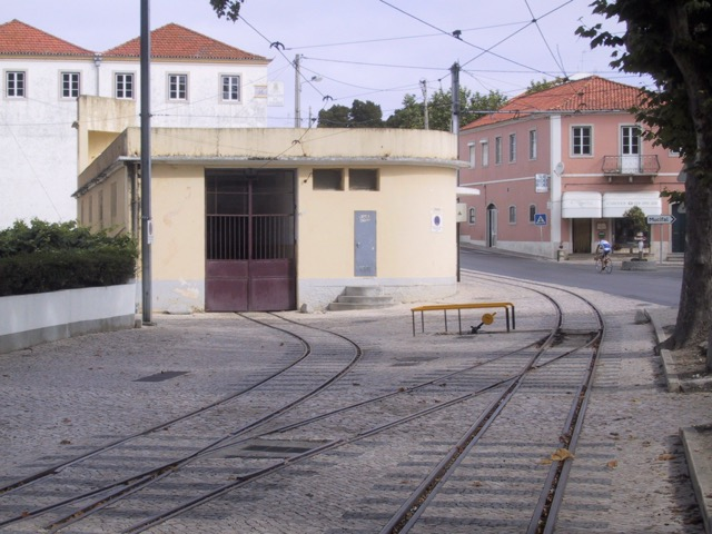 Banzão depot